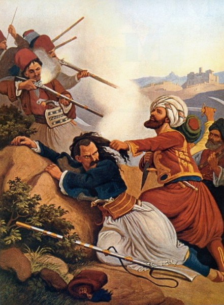 John Makrygiannis by Peter von Hess